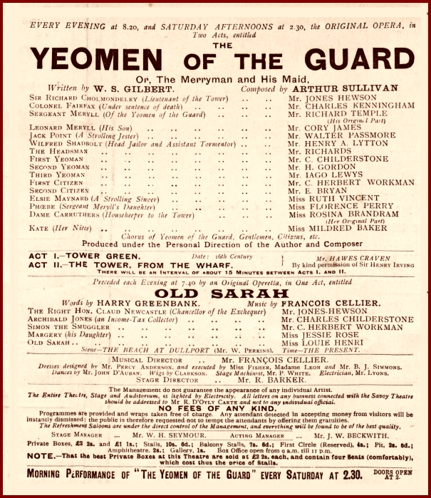 Scan of theatre programme from the Savoy Theatre, 9 July 1897, for The Yeomen of the Guard and Old Sarah - public domain.